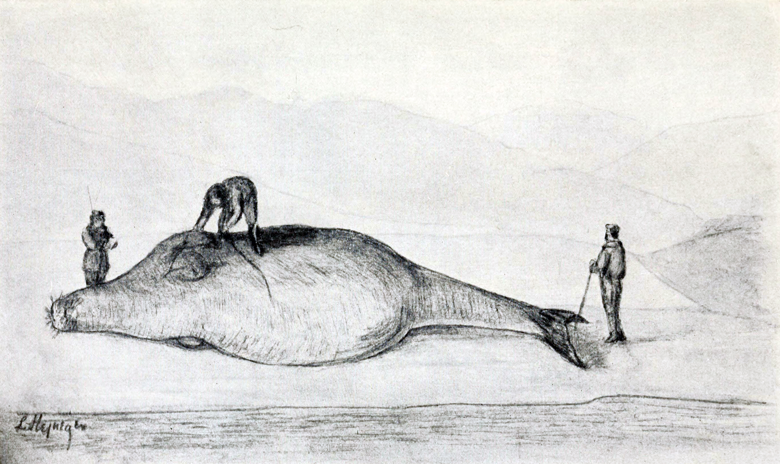 Reconstruction of Steller measuring a Steller's sea cow on Bering Island, July 12, 1742.